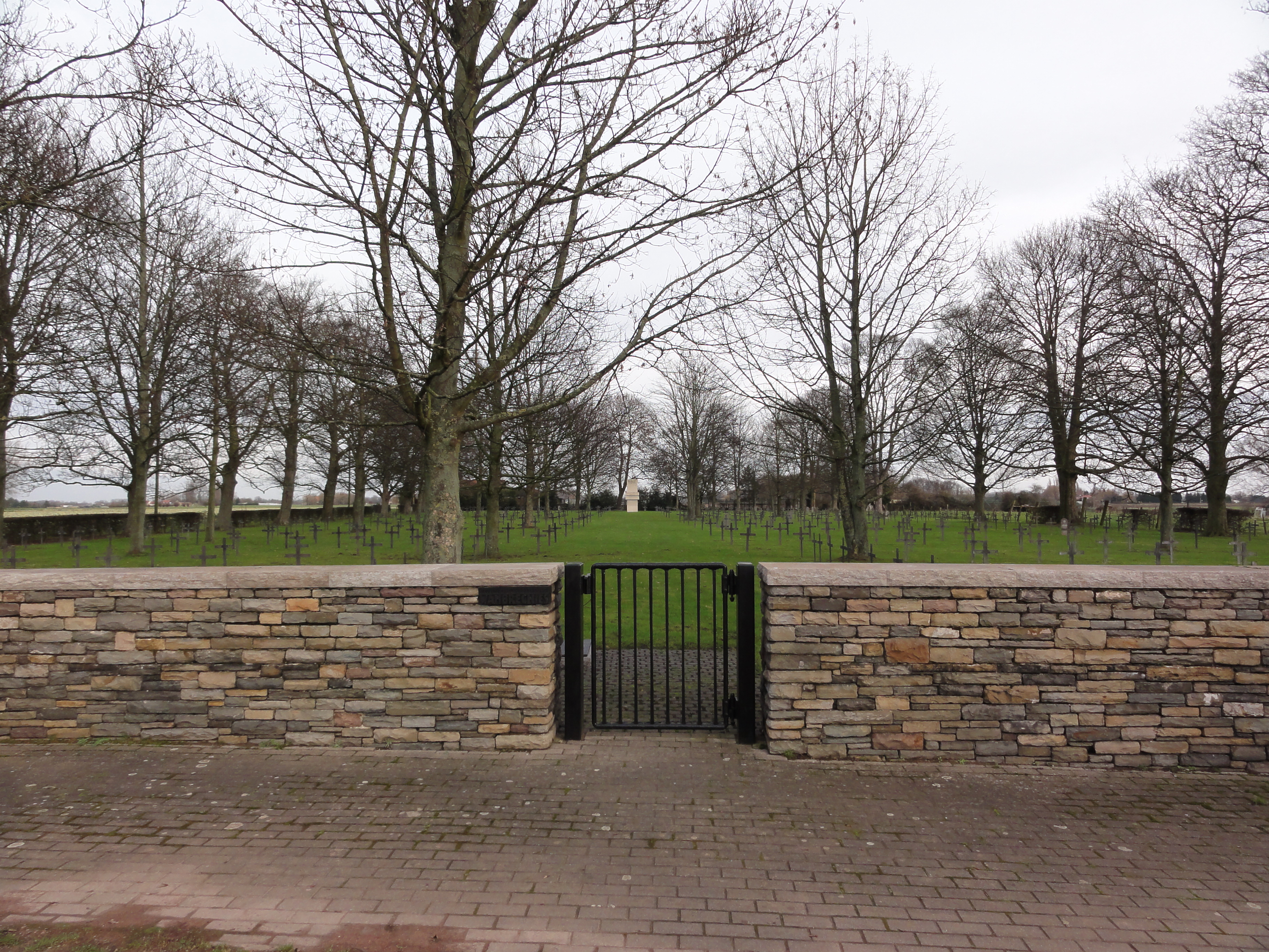 Deutscher Soldatenfriedhof Wambrechies in Wambrechies